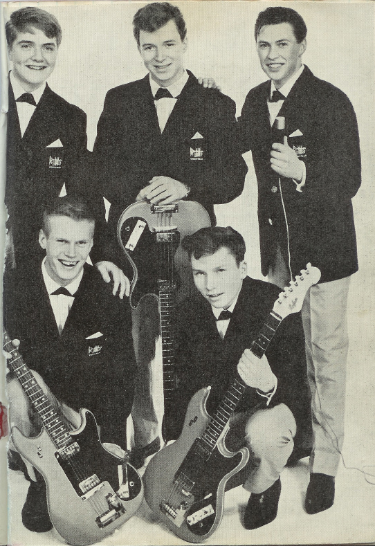 Picture of the The Saints band in 1963.